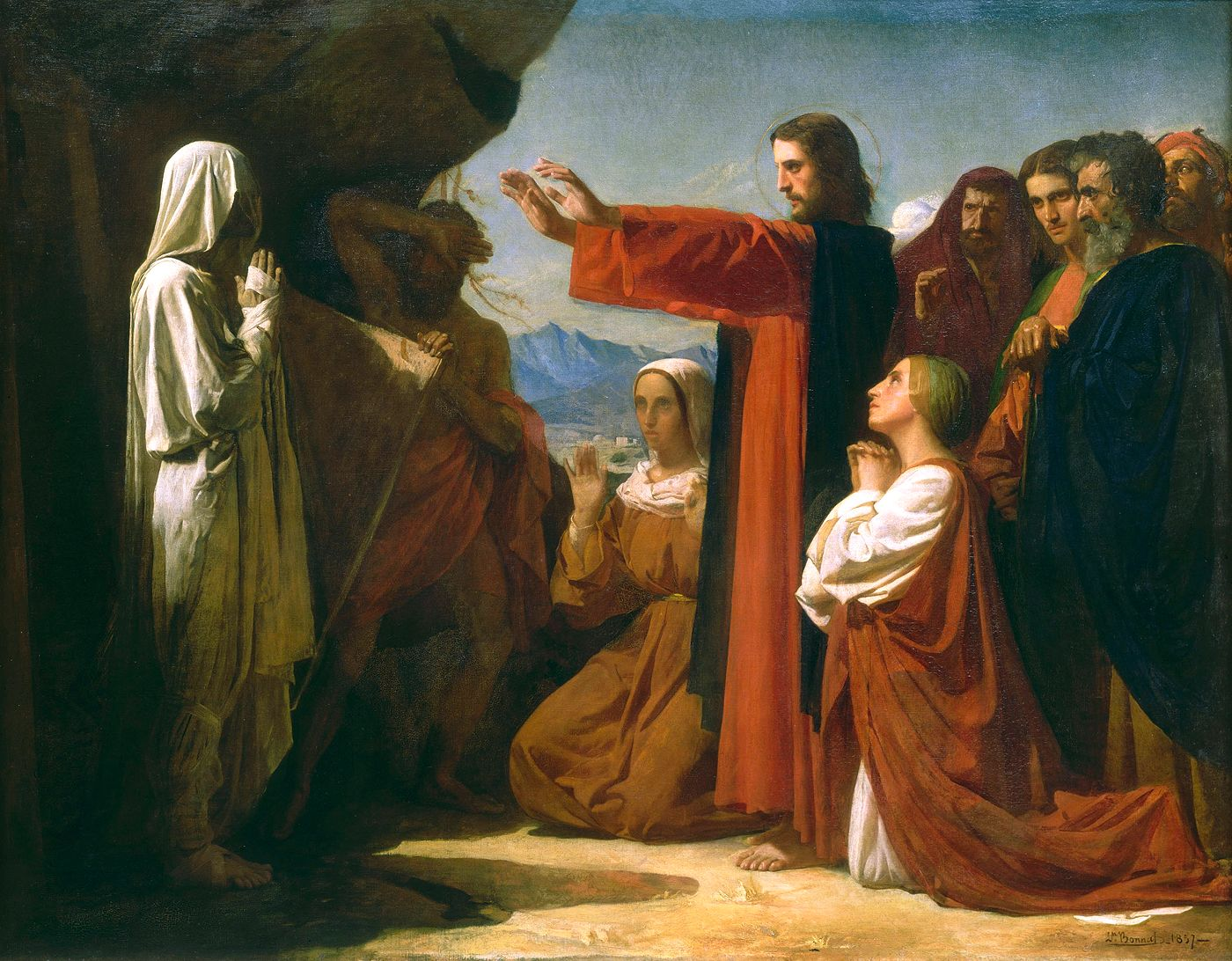 The Resurrection of Lazarus or The Raising of Lazarus